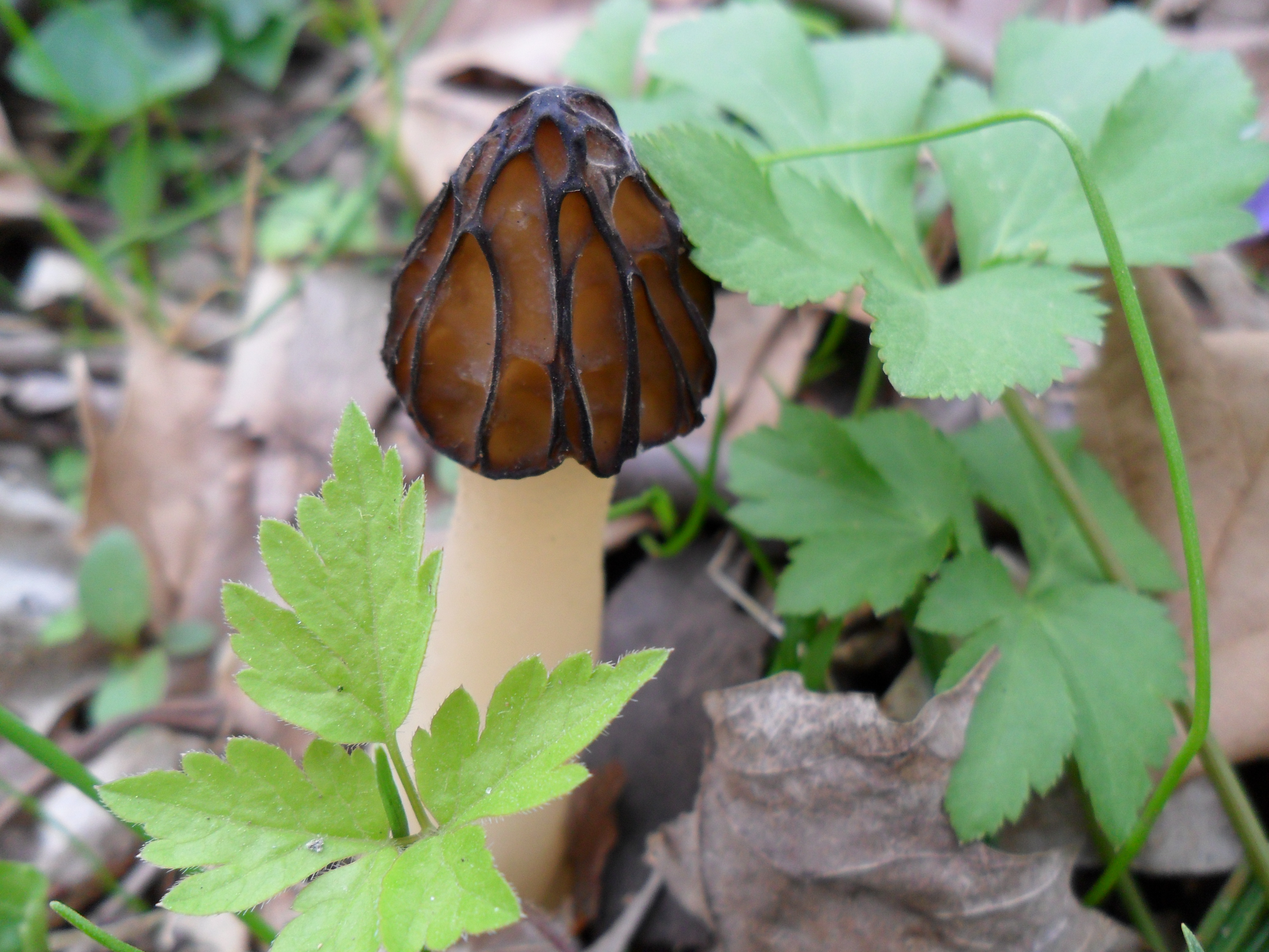 Longneck morel